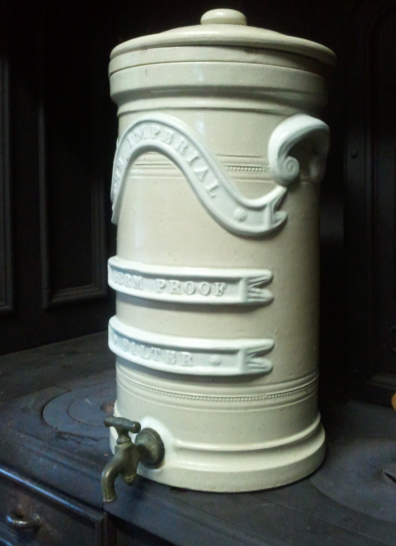 Ceramic water filter, Victorian, with brass tap.